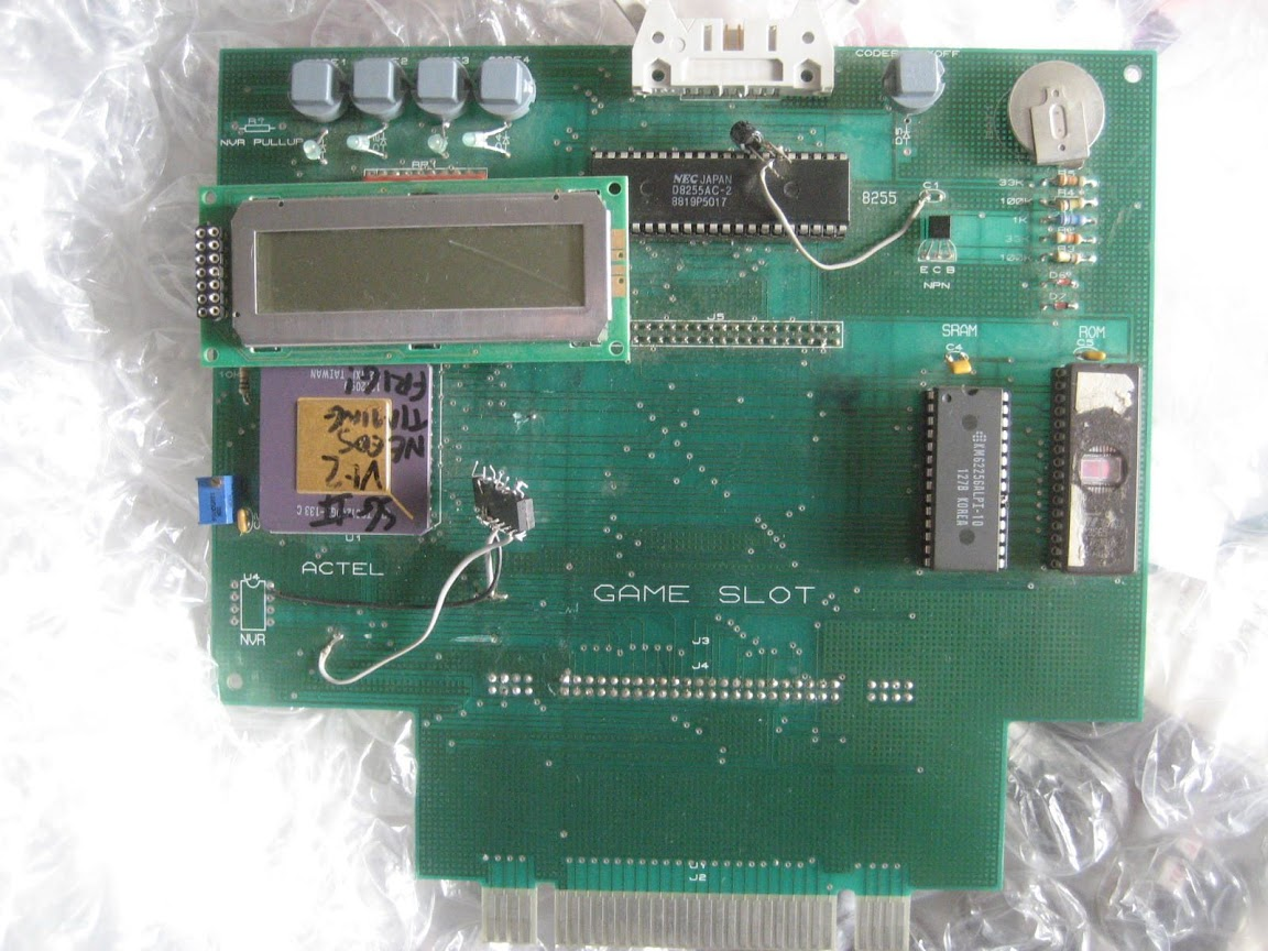 Unreleased prototype for the Game Genie 2 which had many extra features. It was fully developed but never released due to changing market conditions. This board has a number of debugging features including an LCD and parallel port for connection to a PC host. The final product was to use a battery-backed SRAM and feature several buttons for code-finding and on-the-fly cheat activation. On this prototype the original game cartridge is plugged into a connector on the rear of the board. This prototype shows a classic "dead bug" hand-wired modification to fix a timing issue in the prototype FPGA chip.